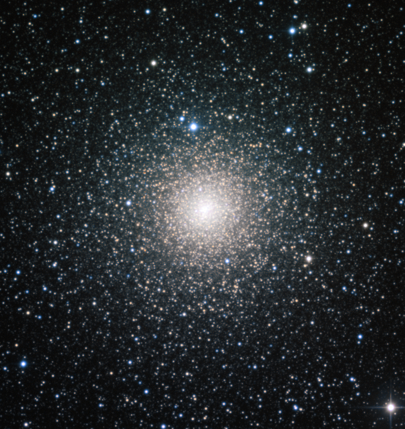 This image from the MPG/ESO 2.2-metre telescope at ESO's La Silla Observatory in Chile shows NGC 6388, a dynamically middle-aged globular cluster in the Milky Way. While the cluster formed in the distant past (like all globular clusters, it is over ten billion years old), a study of the distribution of bright blue stars within the cluster shows that it has aged at a moderate speed, and its heaviest stars are in the process of migrating to the centre. A new study using ESO data has discovered that globular clusters of the same age can have dramatically different distributions of blue straggler stars within them, suggesting that clusters can age at substantially different rates.